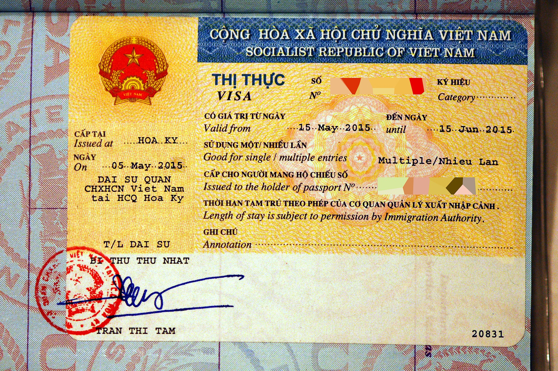 A Vietnam multiple entries visa sticker on an American passport